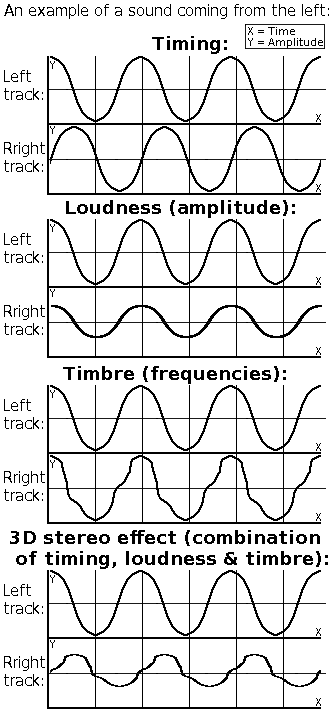 This picture visualizes the key constituents of a binaural recording and playback (3D stereo sound).